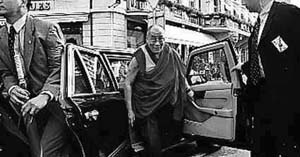 Dalai Lama